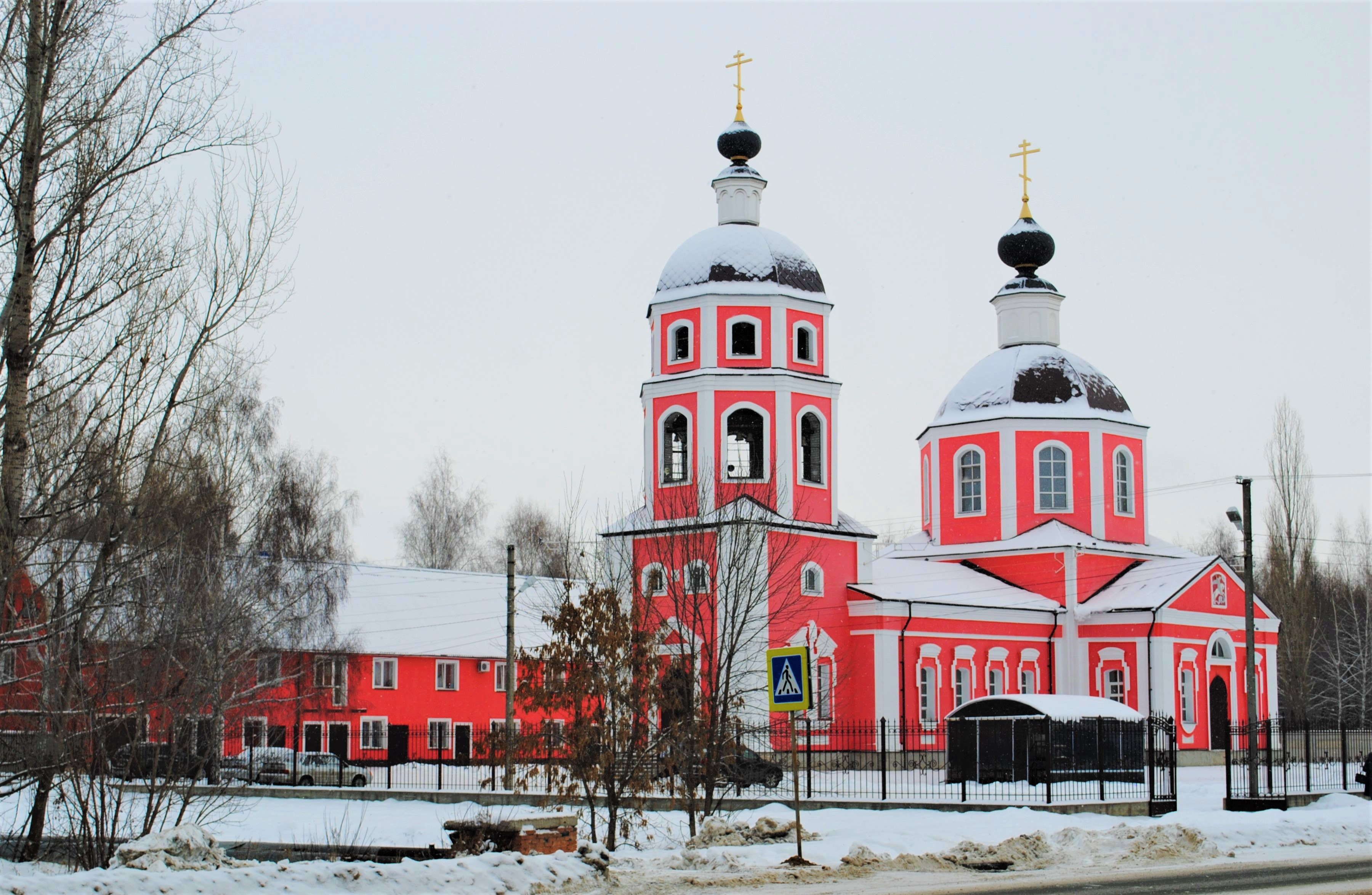 Churches in Livny